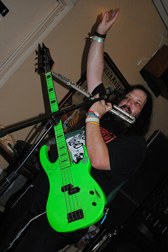 Steve Lieberman plays flute solo with one hand at punk show 2010